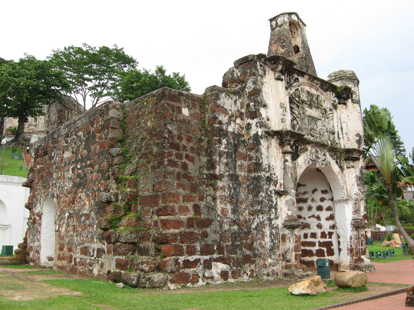 The only surviving remains of the Porta de Santiago in the Portuguese fort or A Famosa in Malacca, Malaysia.